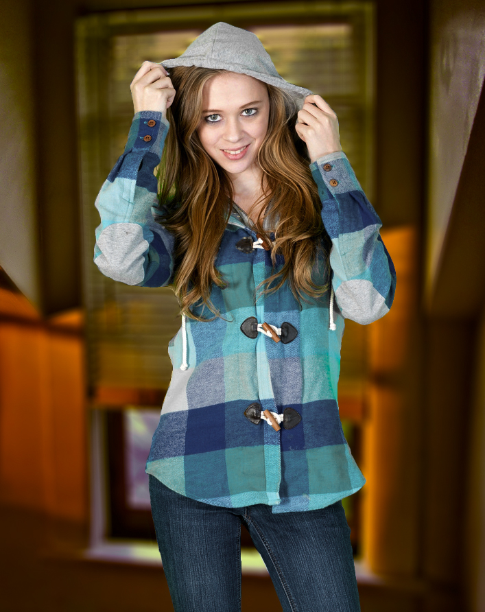 Girl wearing a blue hooded sweatshirt standing in a room that was added after the green screen behind her was removed.